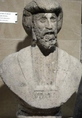 Statue of Osman I